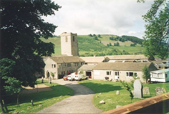 Marrick Priory.